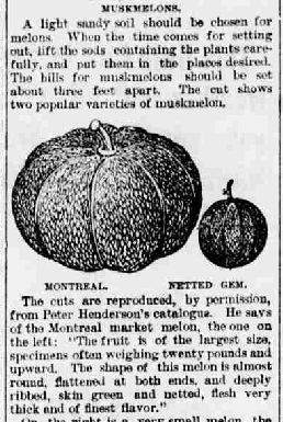 Cropped from the newspaper shown. Image of a Montreal Melon.